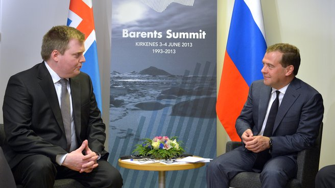 Meeting with Prime Minister of Iceland Sigmundur Davíð Gunnlaugsson